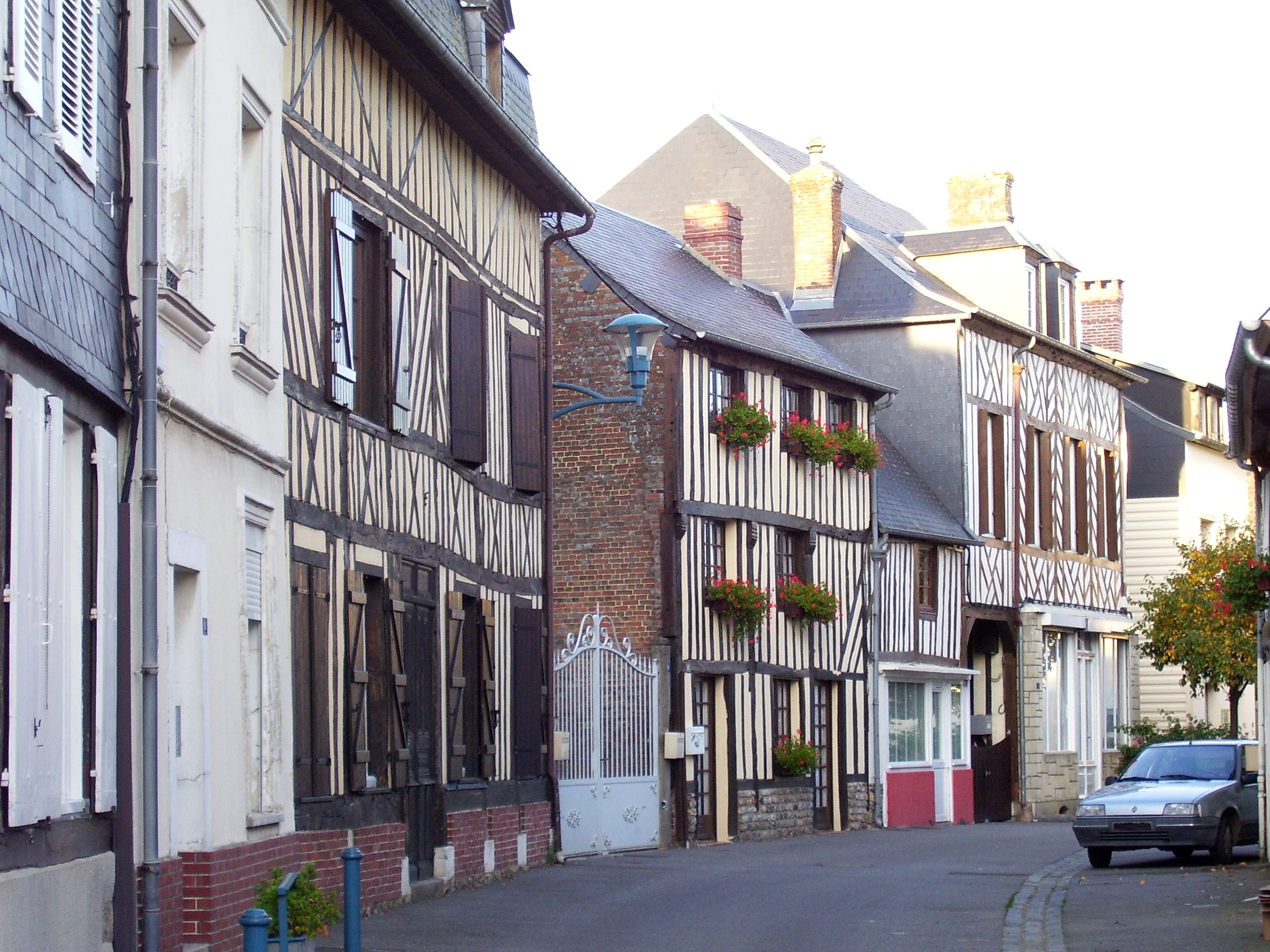 L'île Bavarde, a street in Lieurey (Eure) in France.